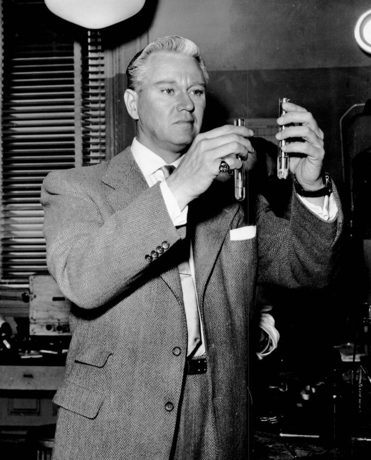 Photo of David Brian from the television program Mr. District Attorney. Brian played the title role.